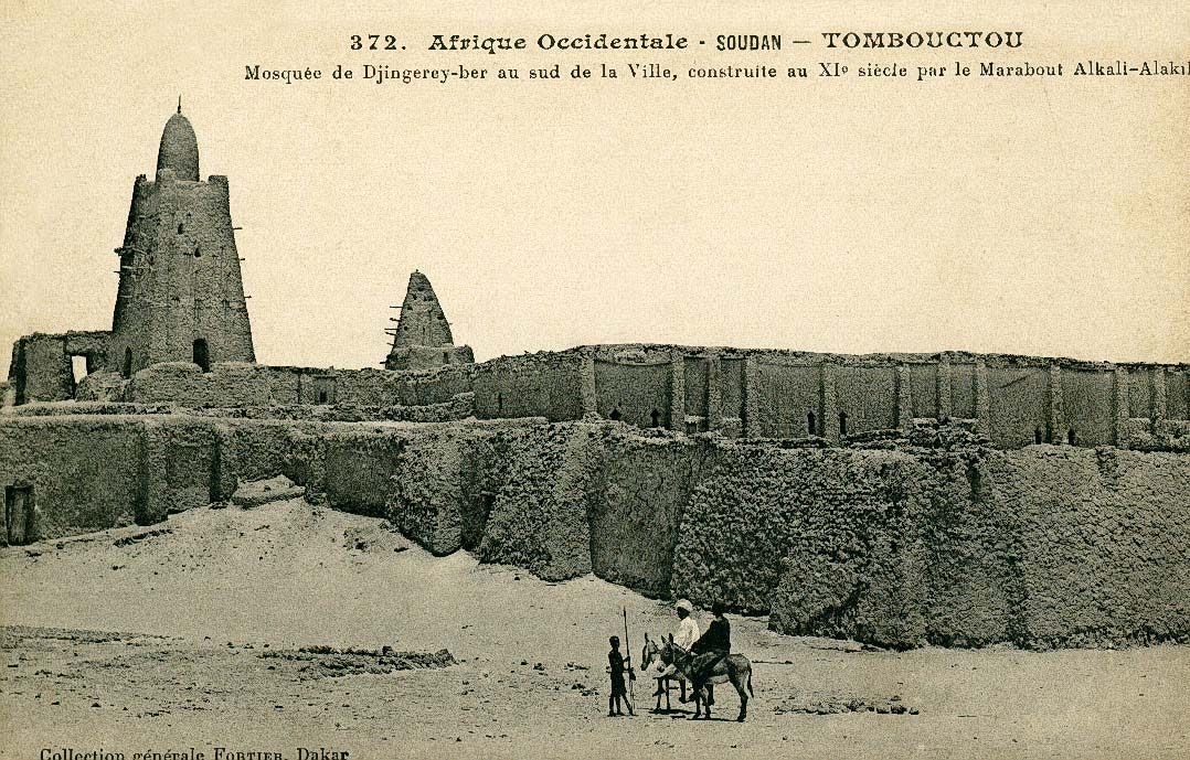 Postcard 372 by Edmond Fortier. View of the Djinguereber Mosque in Timbuktu, Mali.